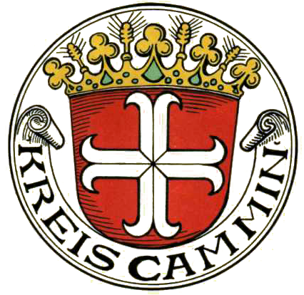 Coat of Arms of former Cammin County.